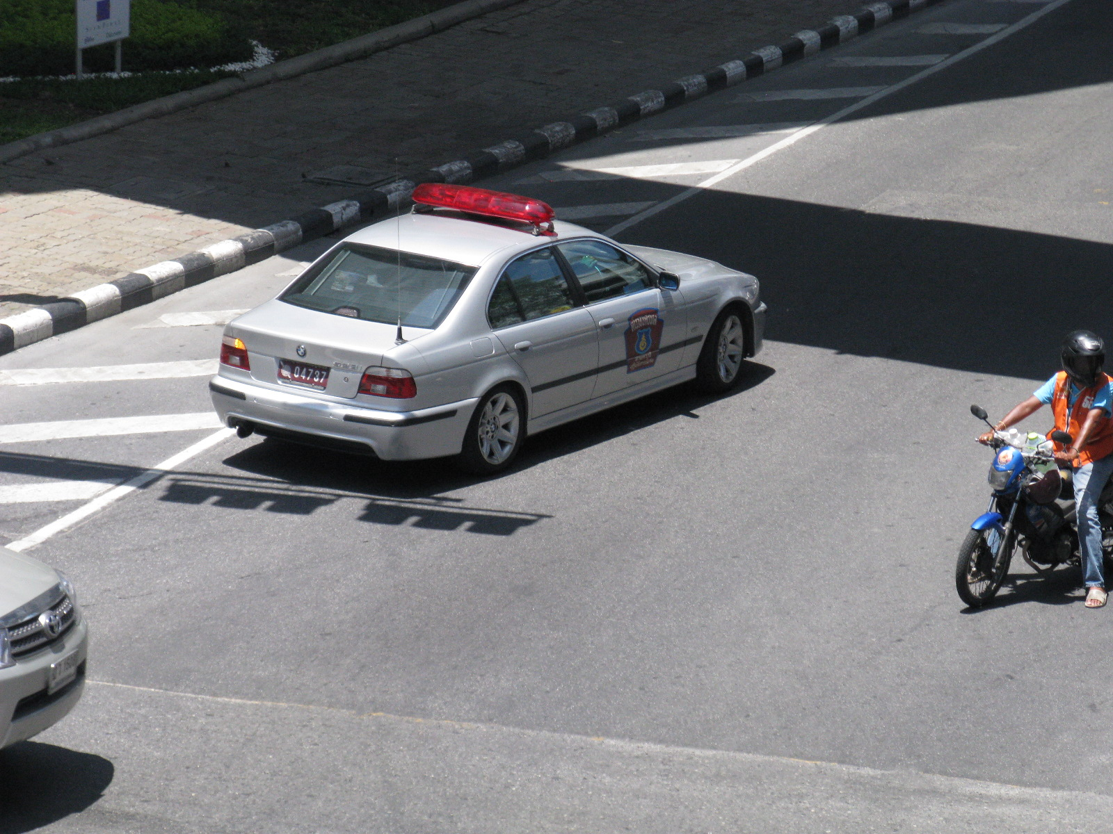 BMW 523i E39 Thai Police